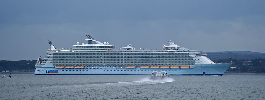 World's largest cruise ship 225'282 gross tonnes Oasis of the Seas creeps past Ryde, Isle of Wight, UK, at twilight, three miles distant from the camera, inbound to the Solent to disembark Finnish shipyard workers before a quick departure on her delivery voyage to Miami, USA. Image uploaded by me George.Hutchinson from a photograph taken by and supplied by Brian Burnell. The photograph should be attributed to Brian Burnell. Wikipedia editors are reminded that the copyright remains with the photographer, and that the terms of the Creative Commons Attribution-ShareAlike 3.0 Unported Licence that allow editors to reuse this image apply to Wikipedia editors also, as they do to other reusers of this image. Breaches of the licence terms are not only unlawful, but are also antisocial, in that breaches discourage photographers from making their images freely available to everyone without payment. Non-Wikipedia users are requested to advise Brian Burnell of its use other than on Wikipedia.